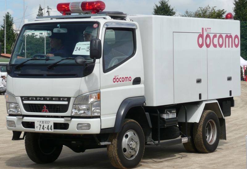 Mitsubishi Fuso Canter 4WD of NTT DoCoMo.